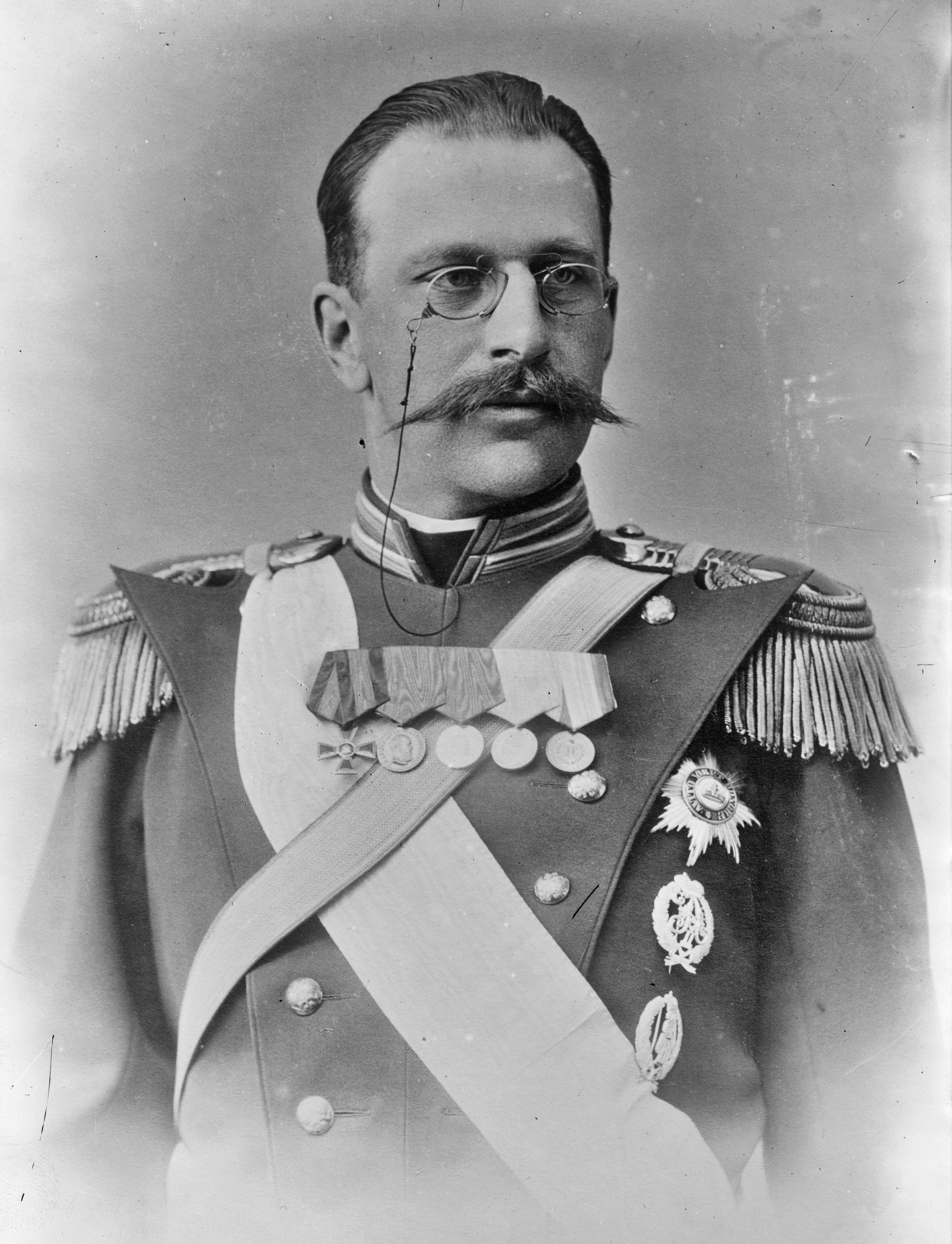 Grand Duke Geo. Mukhalovitch